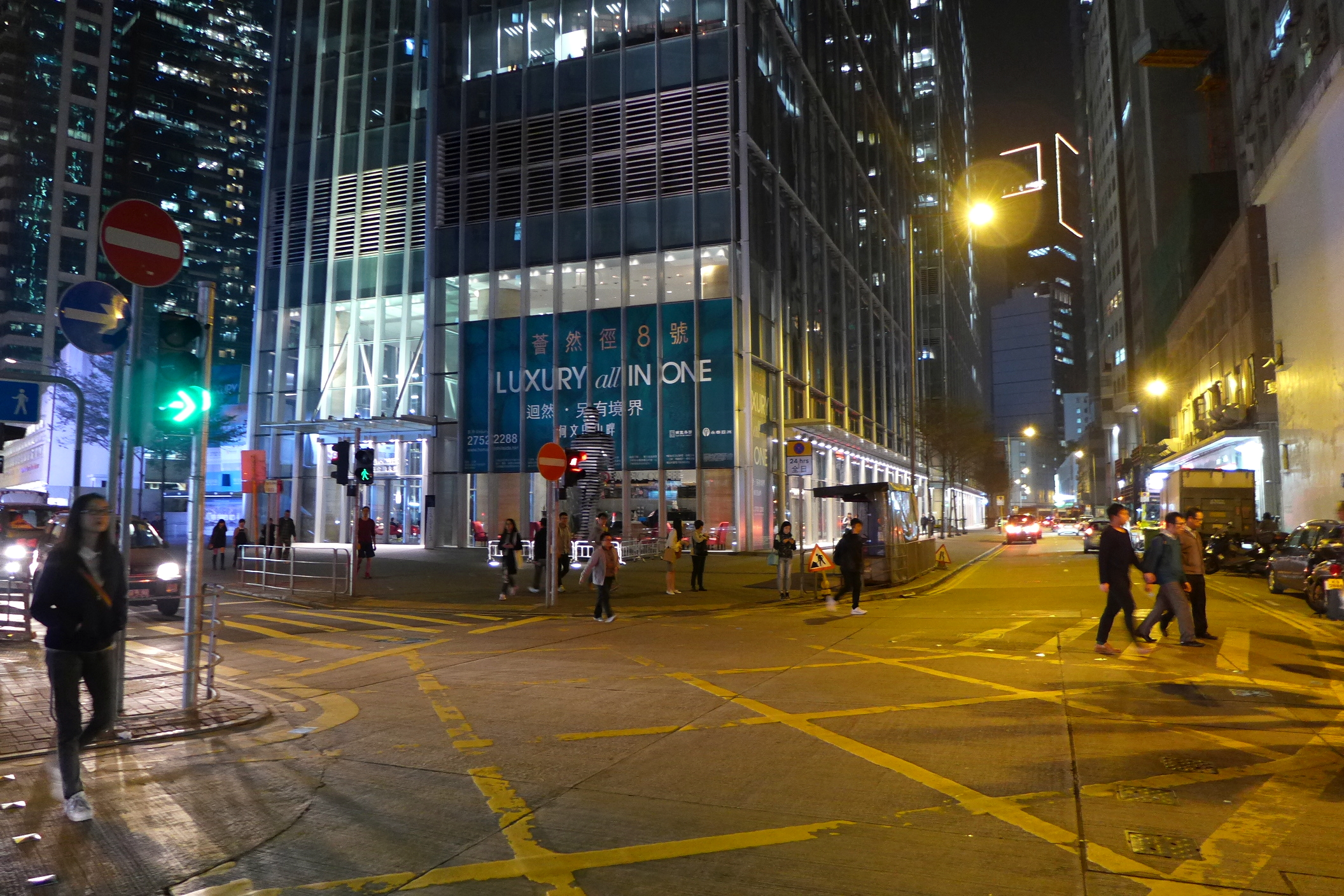 Tsun Yip Street and How Ming Street